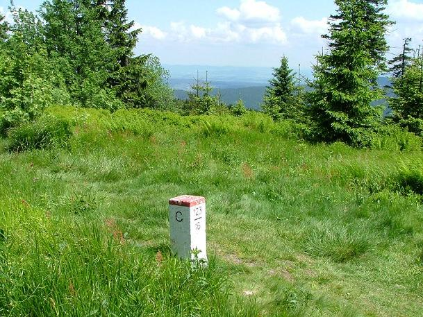 Boundary stone, Mount Orlica in Orlickie Mountains.